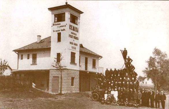 Fire station in Horní Suchá (Czech Republic) in 1936